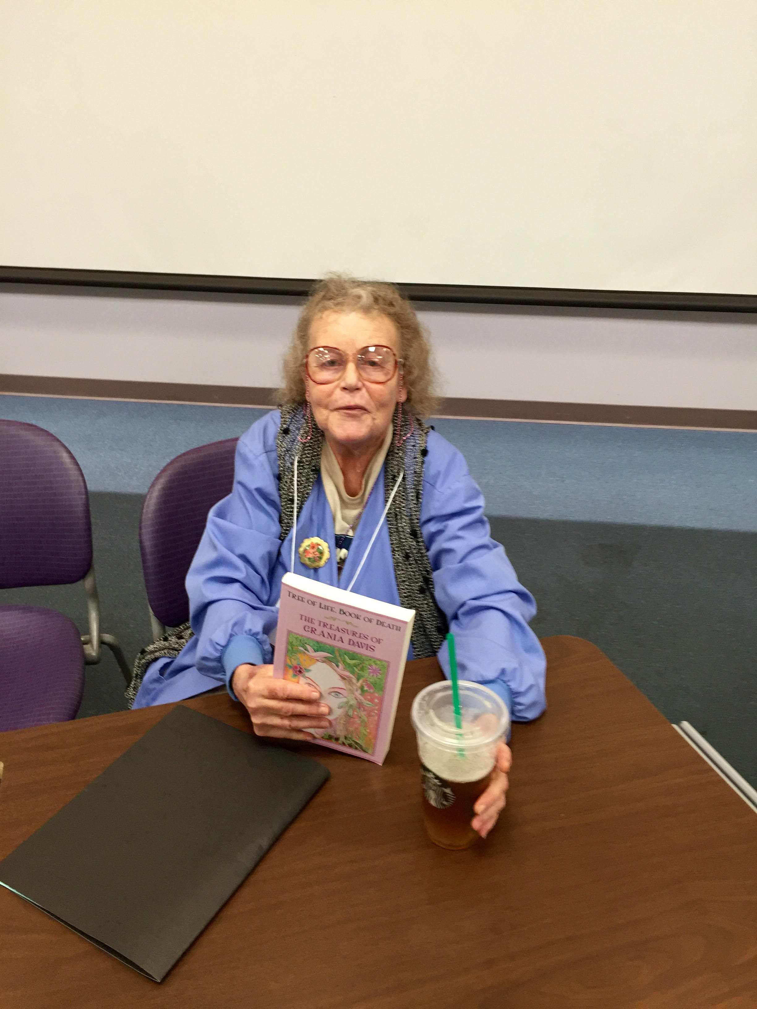 Grania Davis speaking at a Philip K. Dick conference